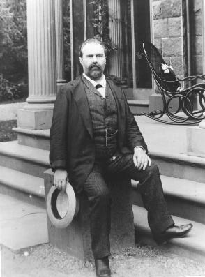 William Steinway on the front steps of the Steinway mansion in Astoria, Queens, New York City.